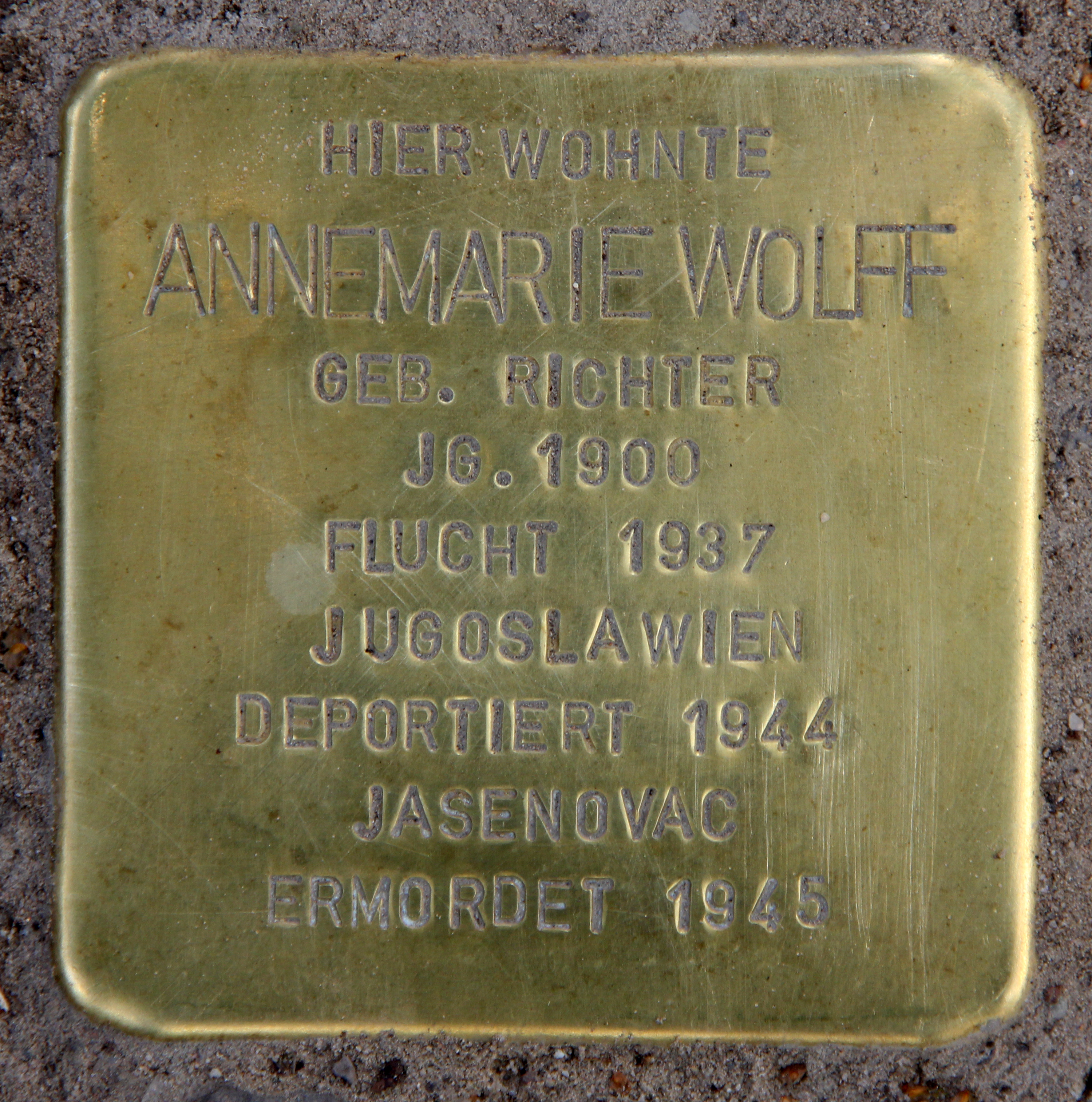 "Stolperstein" (stumbling block), Annemarie Wolff, Oranienburger Chaussee 53, Berlin-Frohnau, Germany